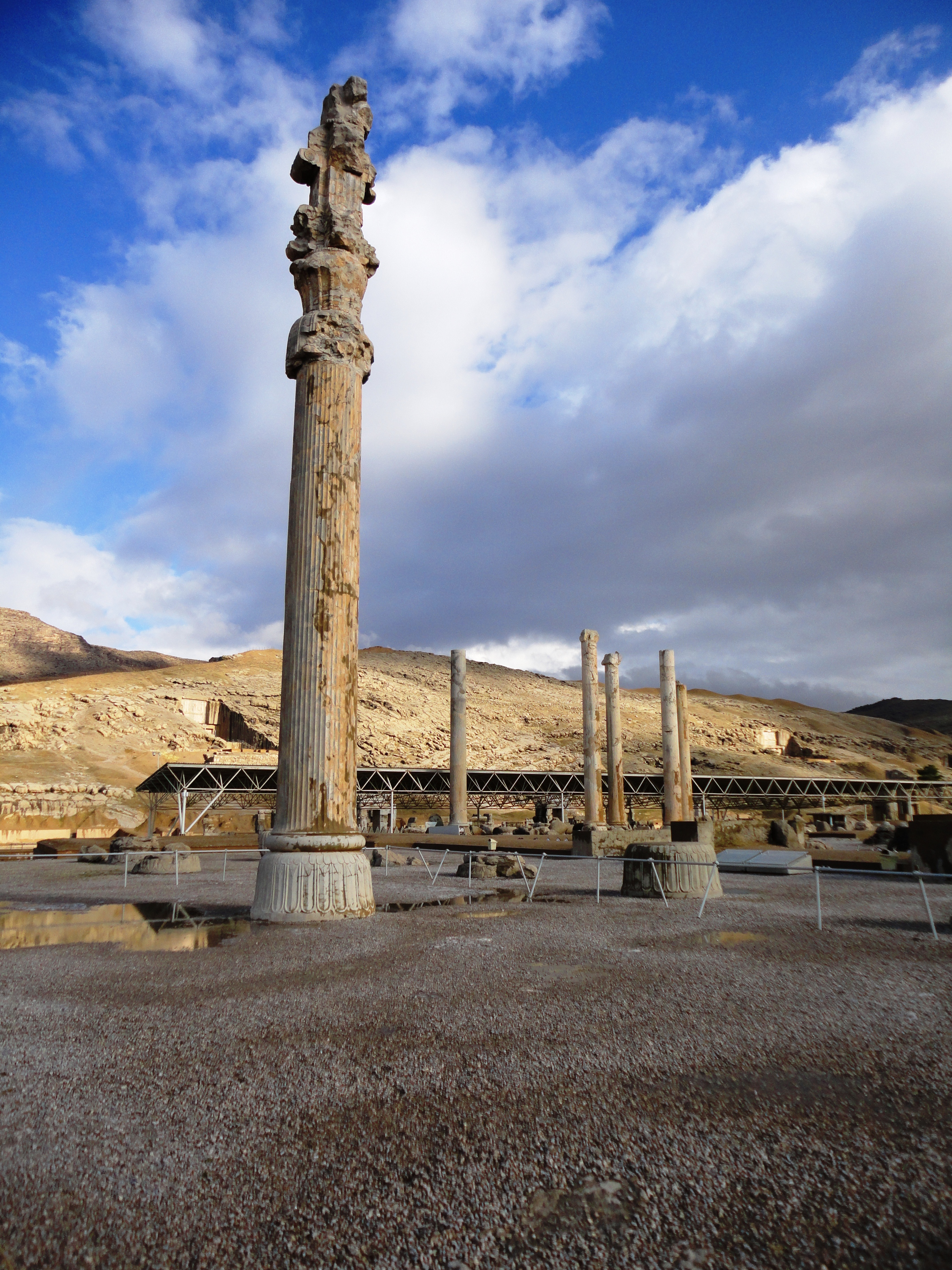 Achaemenid style Persian column (type) — at Persepolis.